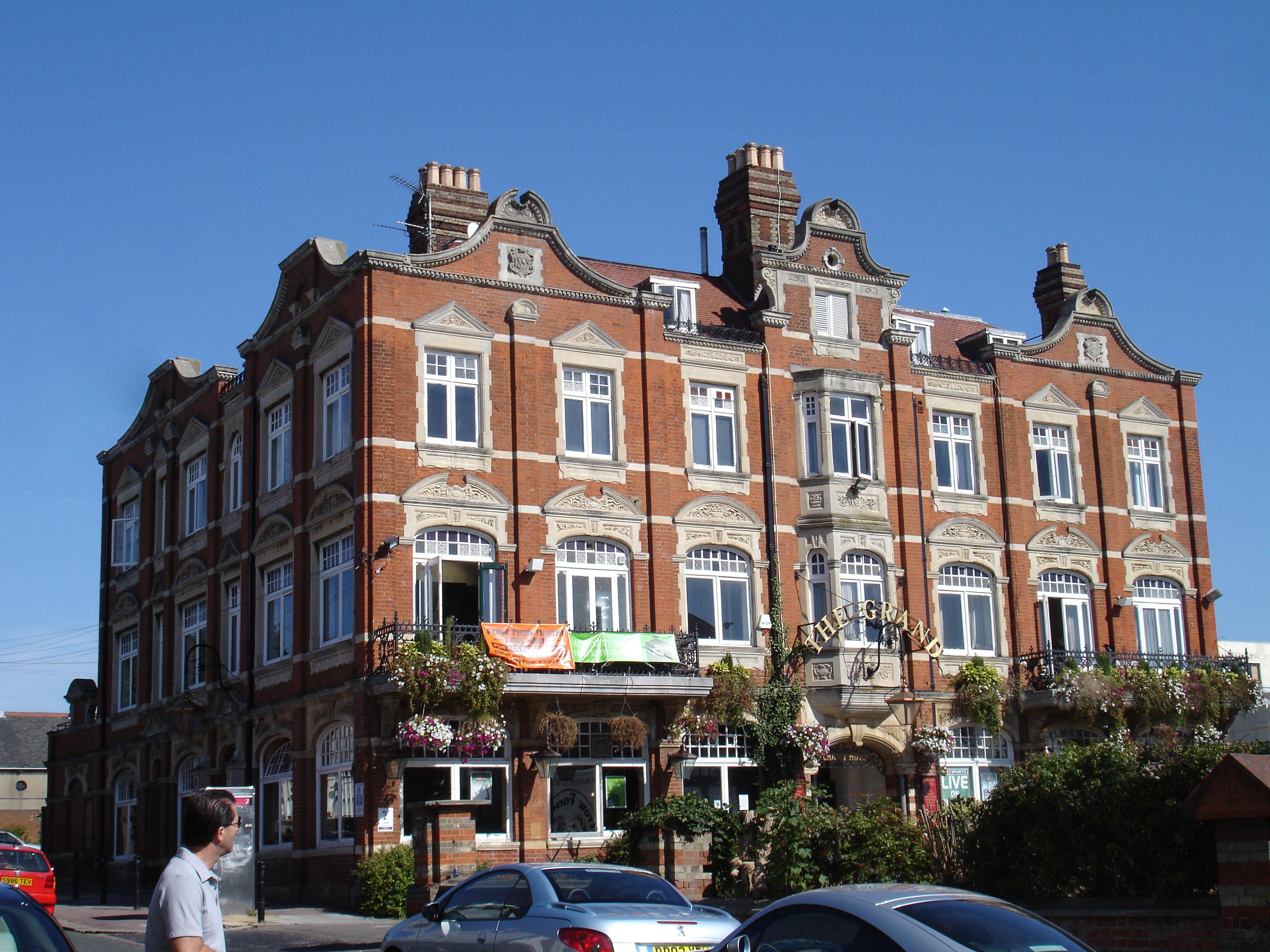 Photograph of The Grand Hotel, Leigh-on-Sea, Essex, England